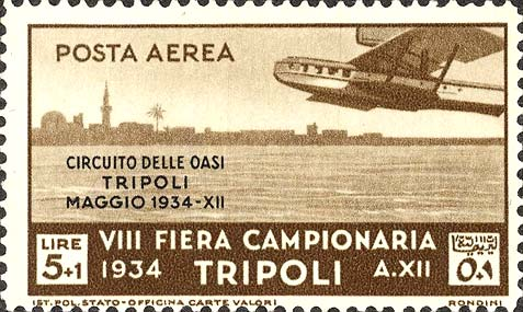 Express stamp 1934: Seaplane and Tripoli coast.